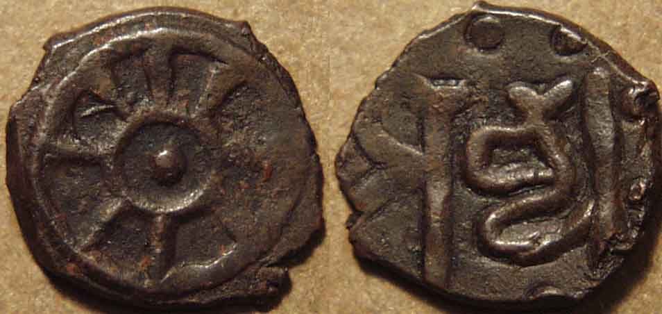 Coin of Achyuta, the last Panchala king. From the CoinIndia website and released by the owner User:CoinIndia.